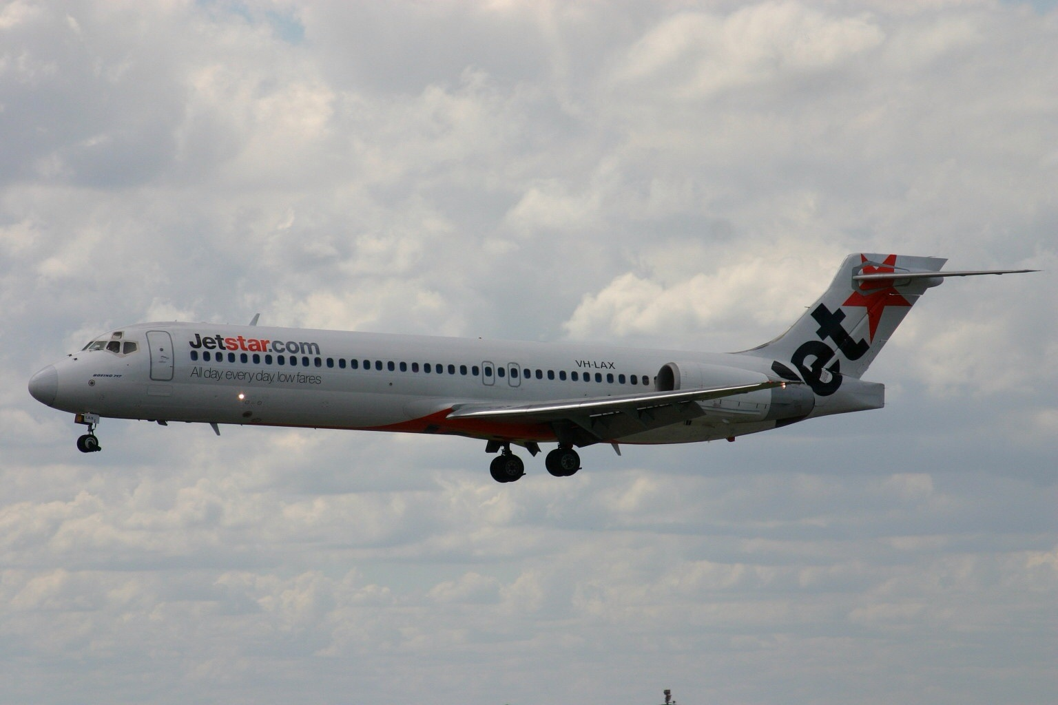 At Brisbane Airport